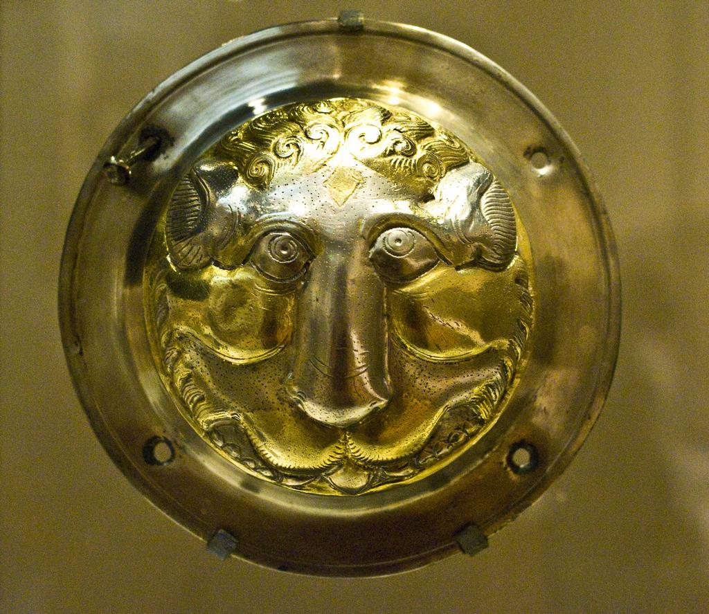 This gilt silver Sassanid shield boss was originally riveted onto the centre of a shield and depicts a lion. It dates to the 6-7th century AD and is now on display in the Persian Empire collection of the British Museum.